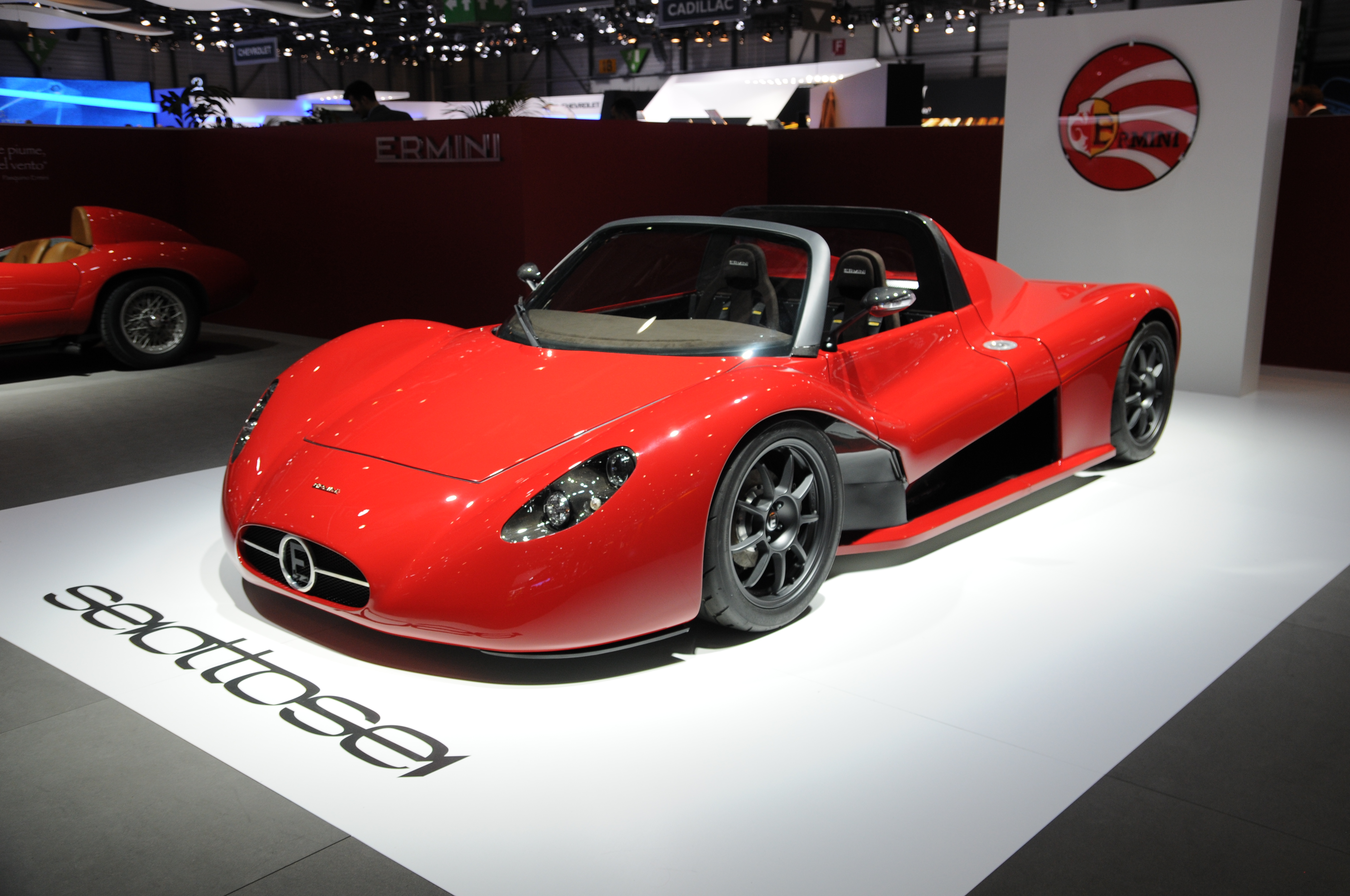 Geneva Motor Show 2014 (photo taken on the first press day)